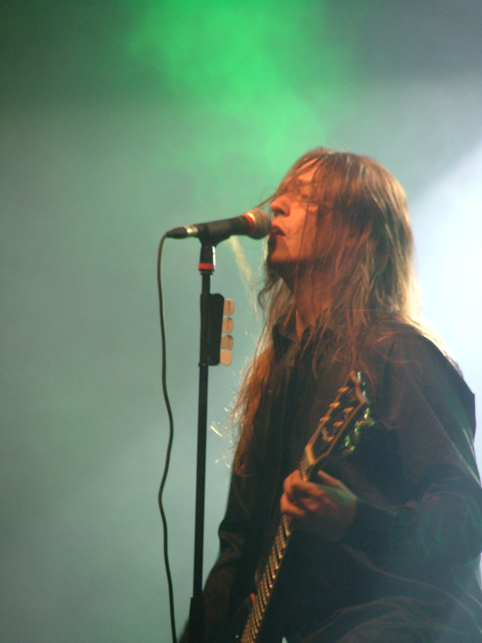 Swedish metal band Pain at 'Rock the Lake' in Finkenstein am Faaker See